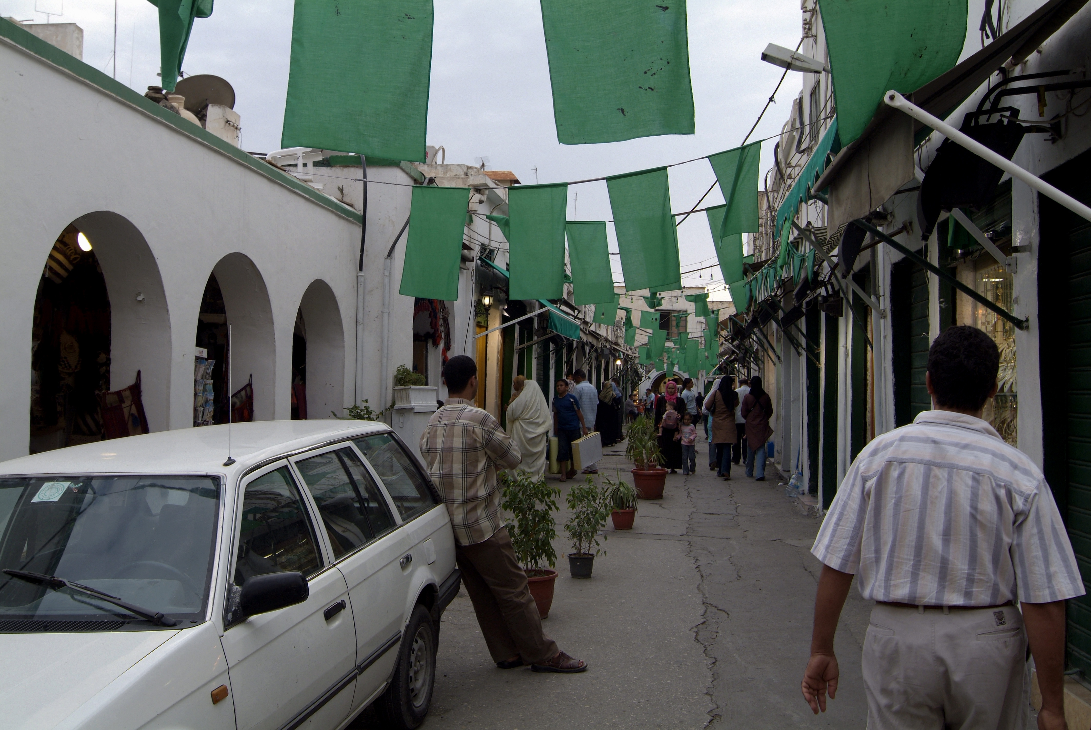 The Libyan flag decorates a street in the Tripoli medina in preperation for Sep 1st celebrations (Revolution Day).